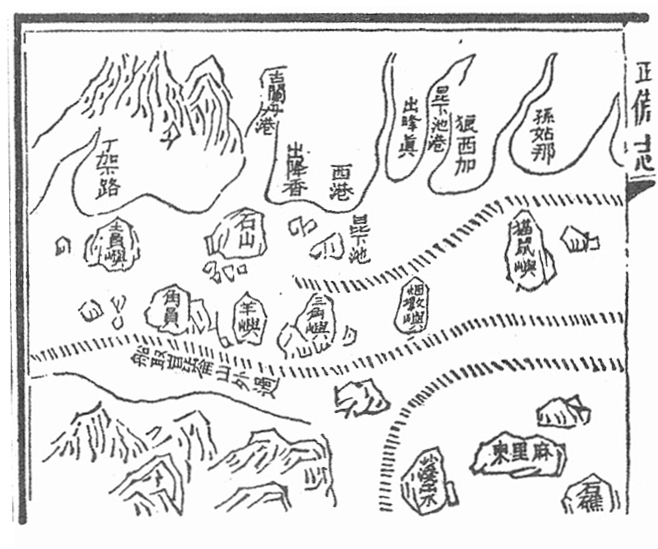 Mao Kun map from Wubei Zhi, among the places shown are: from top right to left, Songkla (孫姑那), Langkasuka (狼西加), Kelantan river (吉蘭丹港), Trengganu (丁架路)